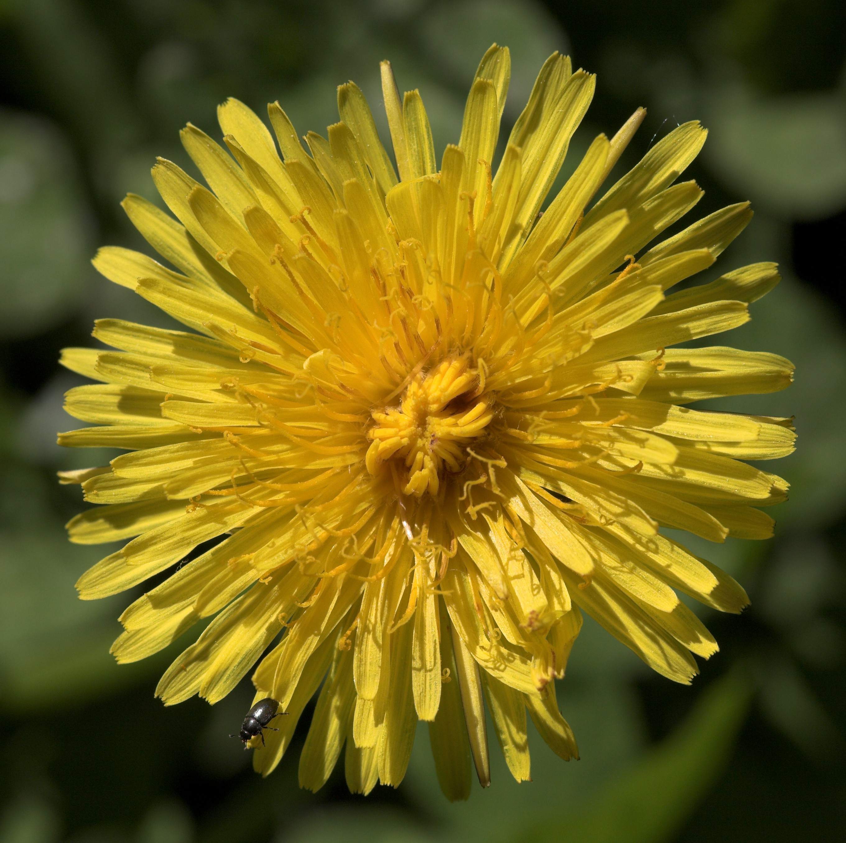 Taraxacum sect. Ruderalia